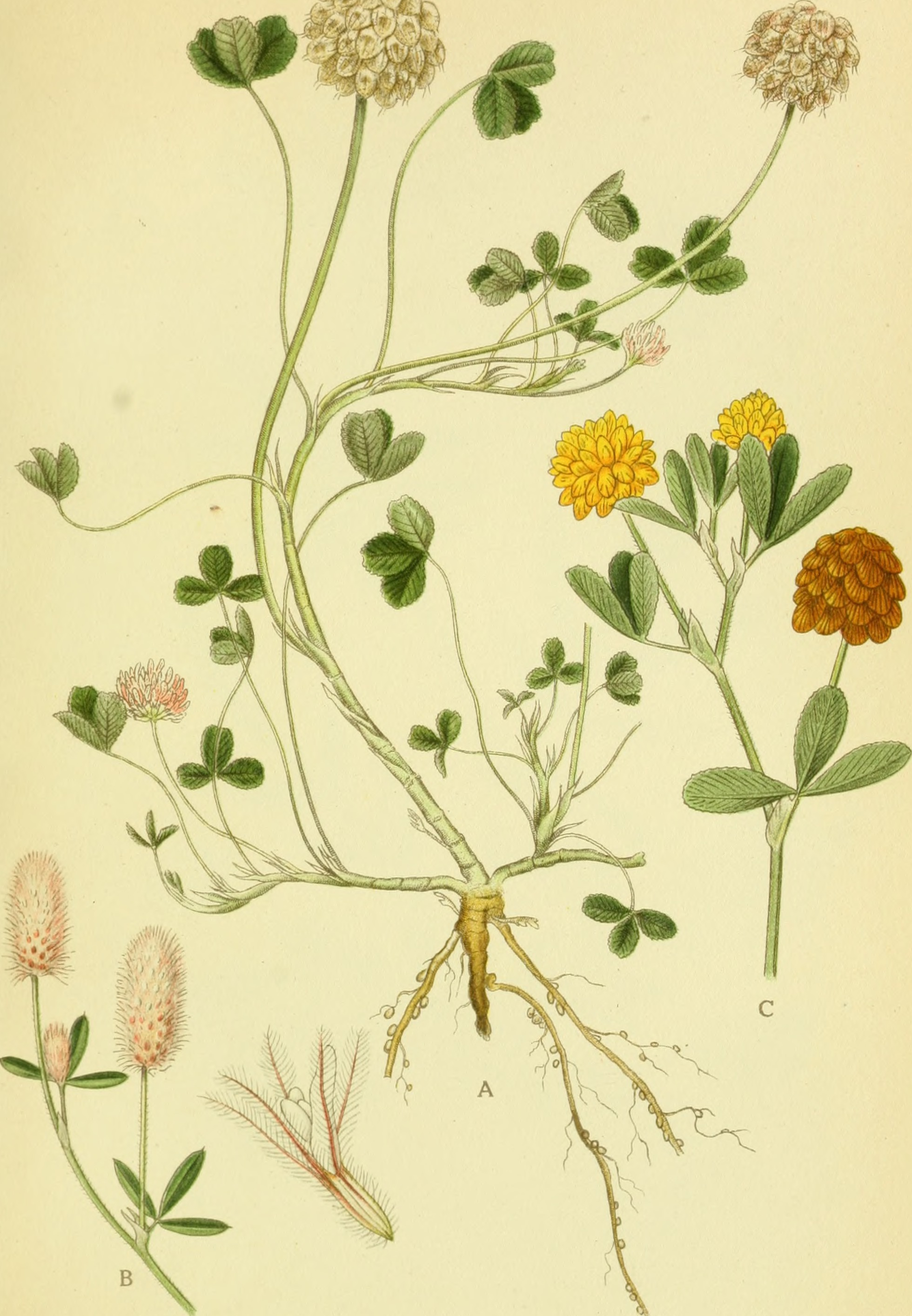 Title: Billeder af nordens flora Year: 1917 (1910s) Authors: Mentz, August, 1867-1944; Ostenfeld, C. H. (Carl Hansen), 1873-1931 Subjects: Plants; Plants; Plants Publisher: København, G. E. C. Gad's forlag Text Appearing Before Image: 329 Text Appearing After Image: A. JORDBÆR-KLØVER, trifolium fragiferum. B. HARE-KLØVER, trifolium arvense. C. HUMLE-KLØVER, trifolium agrarium. teORTZELLSTR.A.a.STHi:-\